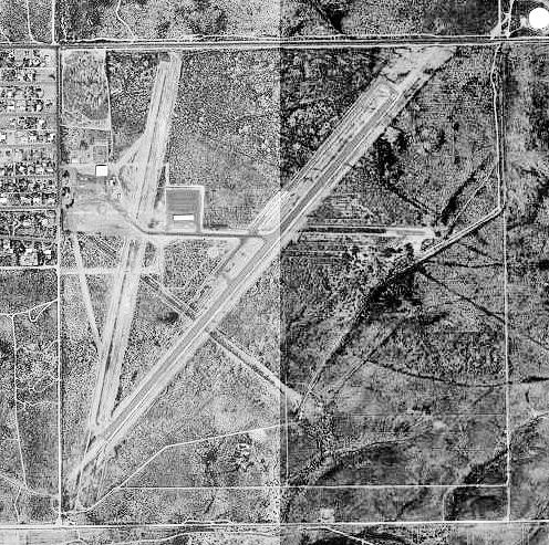 USGS digital orthophoto of Douglas Municipal Airport in Douglas, Cochise County, Arizona